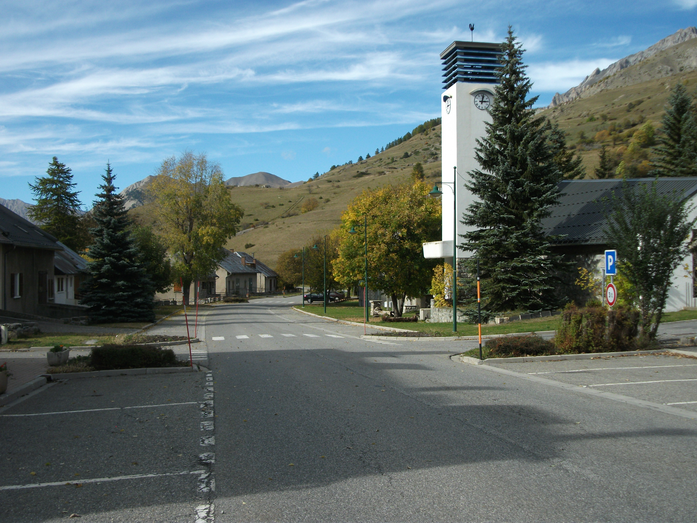 Route départementale 900 (former route nationale 100) towards Barcelonnette, in Larche (Alpes-de-Haute-Provence, PACA, France). Elevation: 1,680 m / 5,510 ft